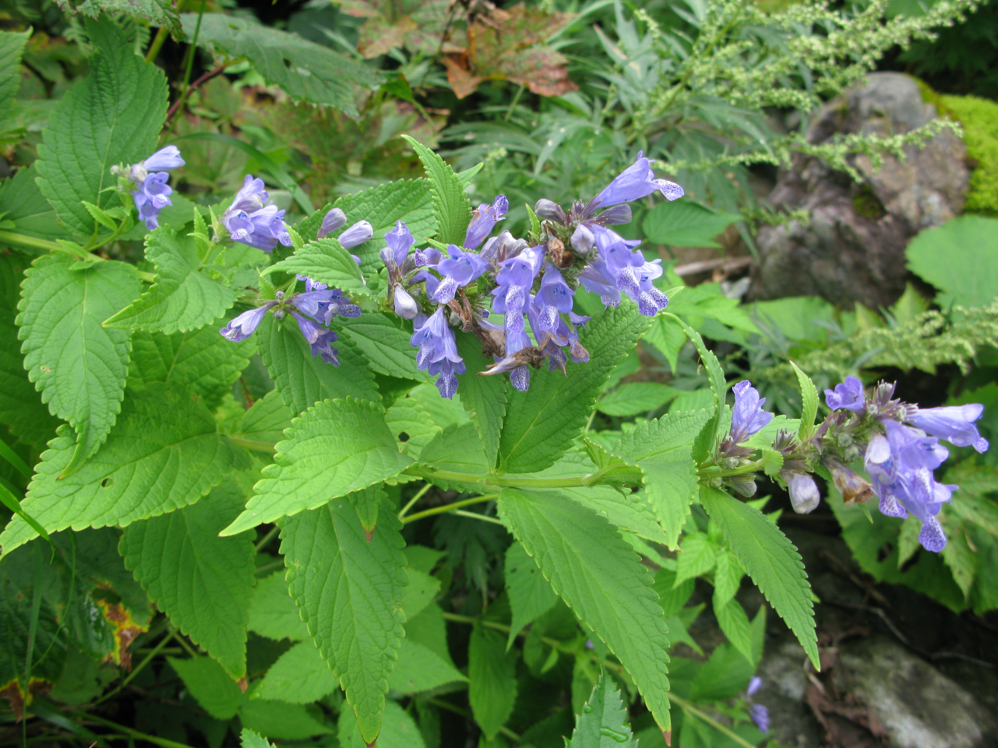 Nepeta subsessilis, Mount Hayachine, Iwate pref., Japan